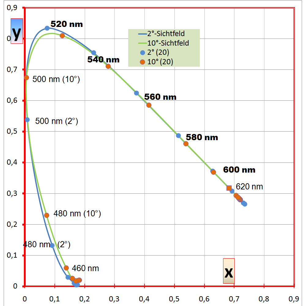 CIE-chromaticity xy-diagramm with spectral curve for 2° (1931) and 10° (1964) observer.